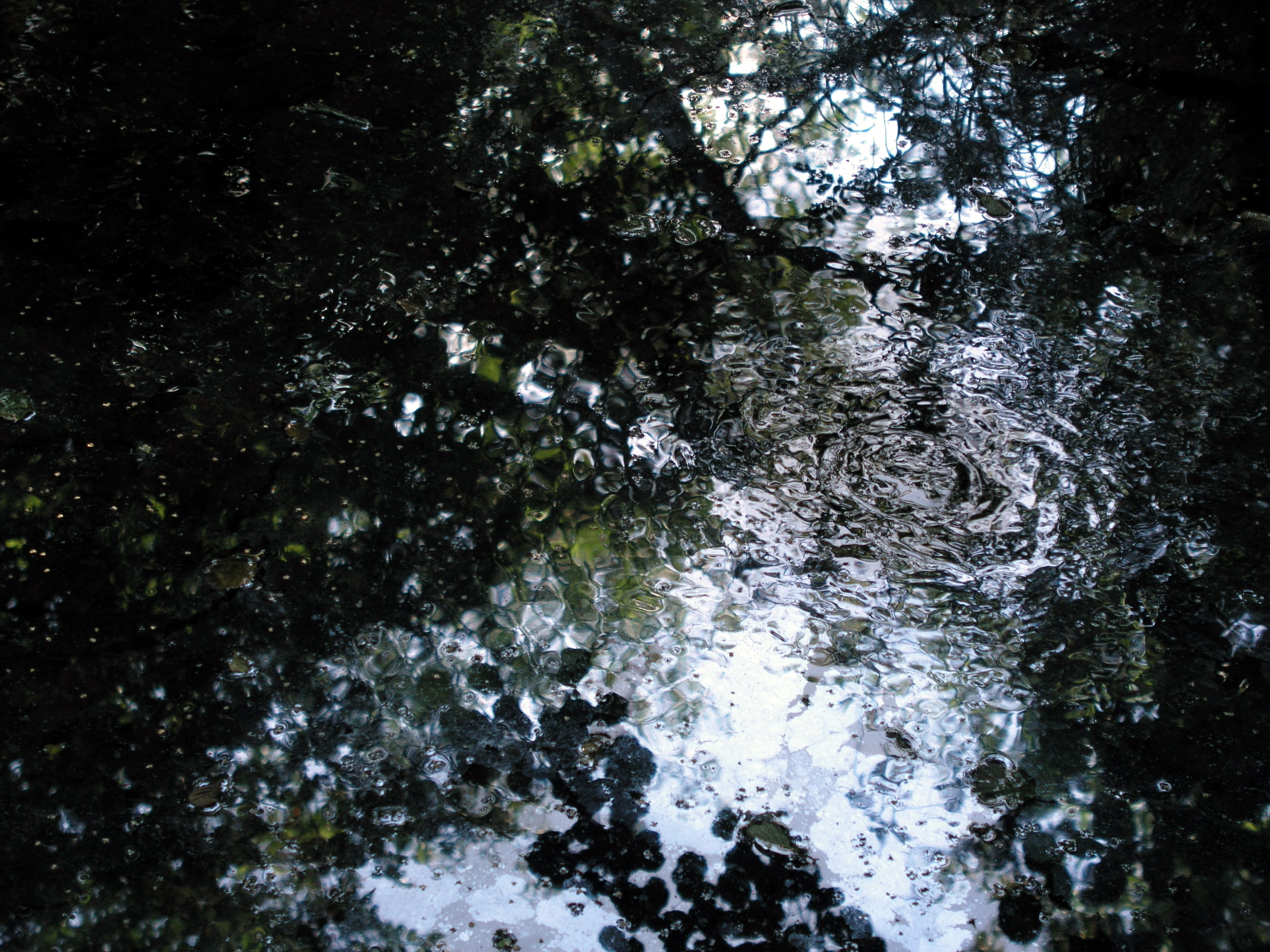 Sankt Botvids källa is a cold spring water in Salem, Sweden.